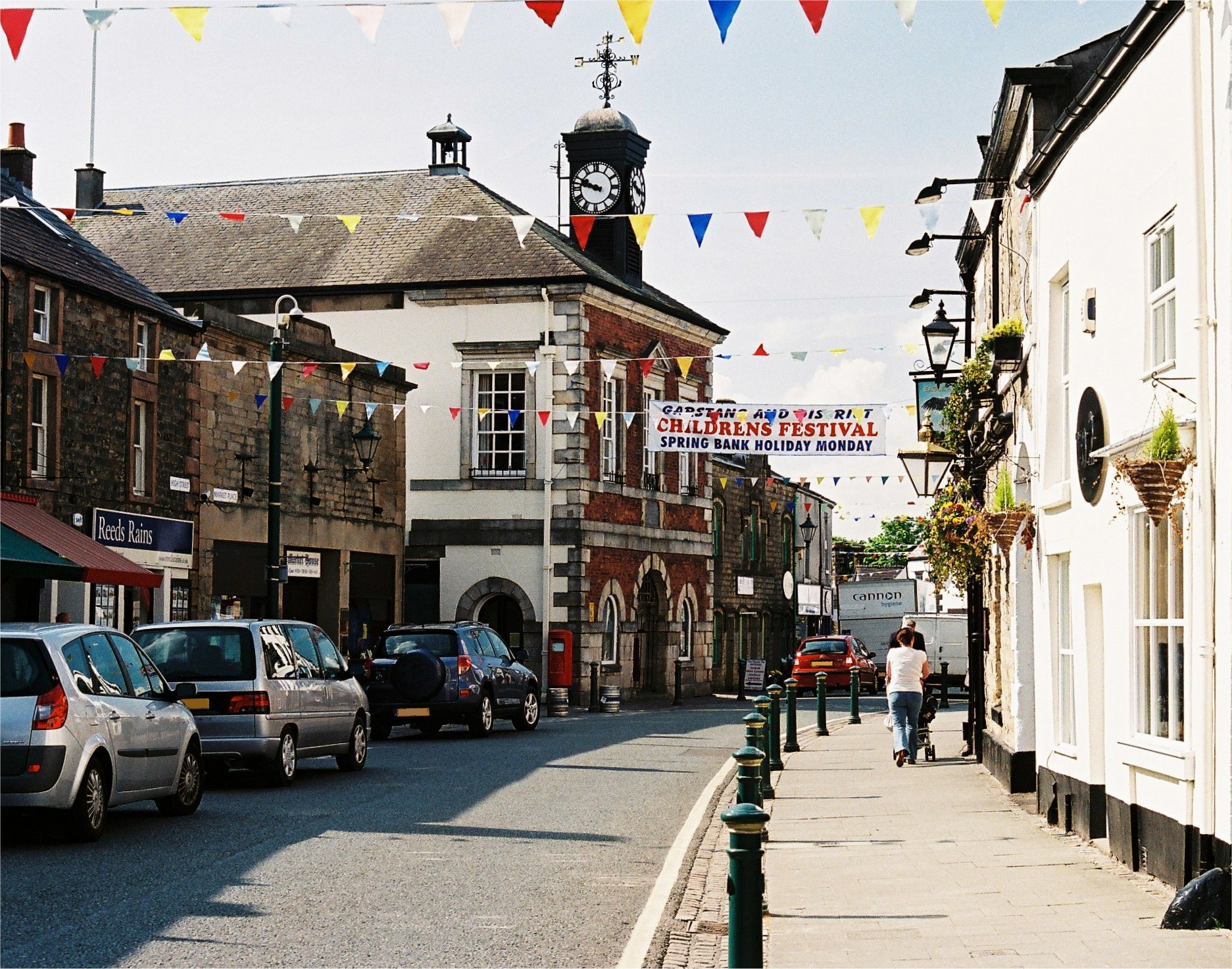 Garstang Town Hall, Lancashire, England viewed from High Street.